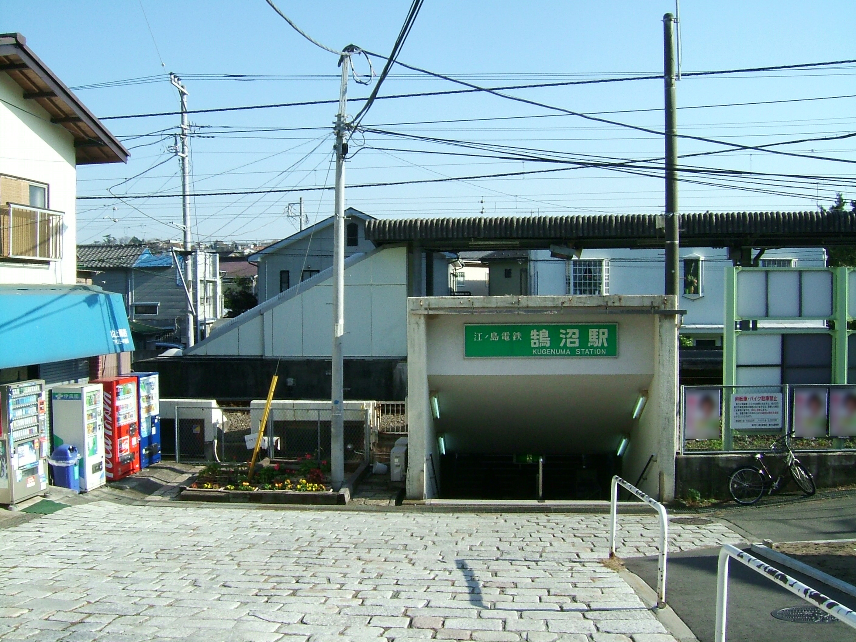 The west-side entrance to Kugenuma Station on the Enoden Line in Fujisawa city, Kanagawa prefecture, Japan